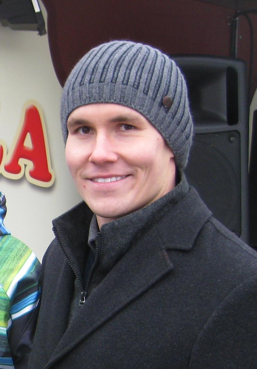 Ice hockey team Jokerit players Antti Tyrvainen, Jarkko Ruutu, Don Bigileone and Leland Irving.